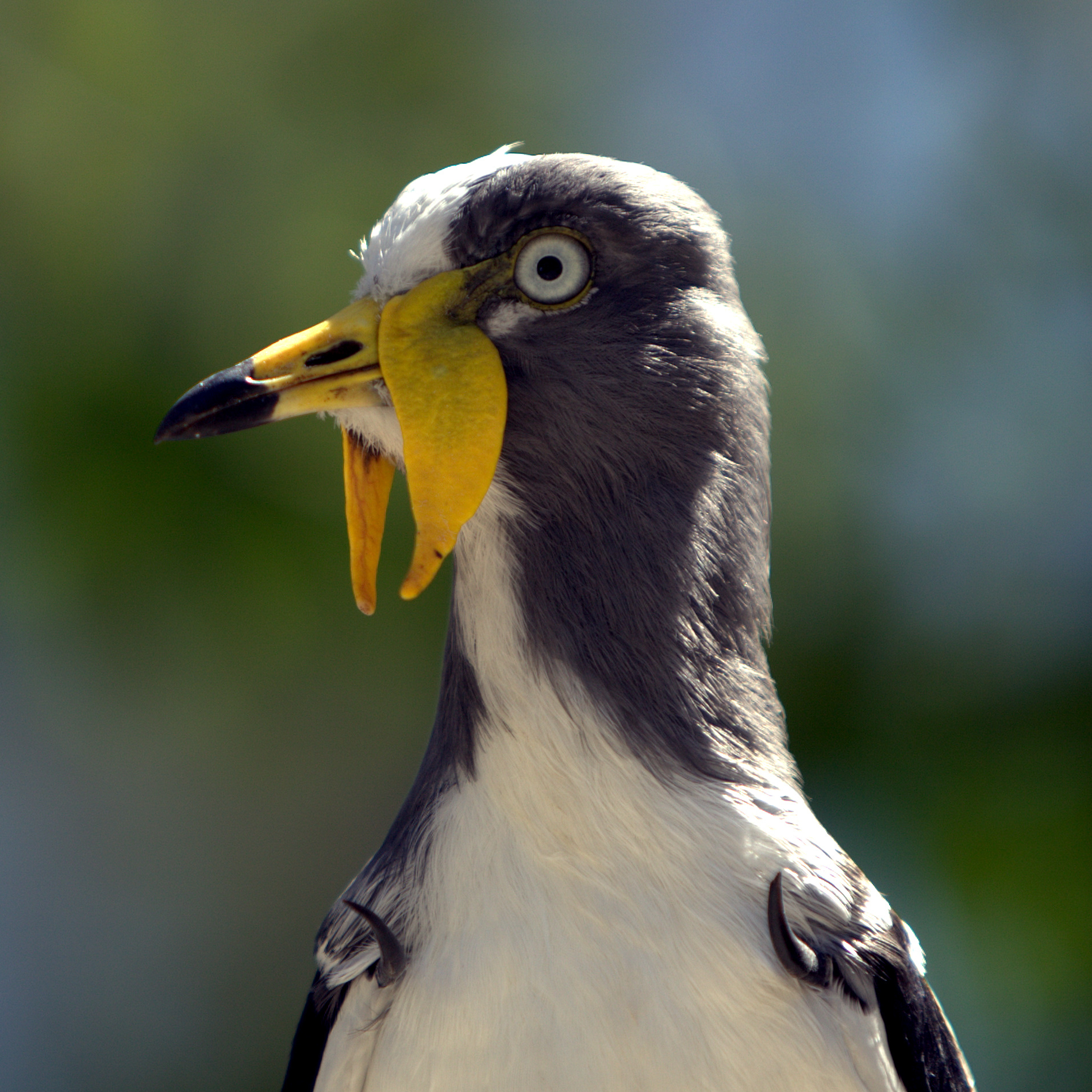 White-headed Lapwing (also known as White-headed Plover or White-crowned Plover) at San Diego Wild Animal Park, California, USA. Photograph shows upper body.